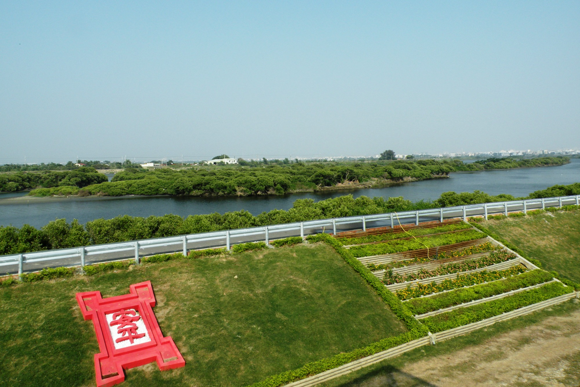 Yanshuei River & Taijiang National Park, Tainan, Taiwan